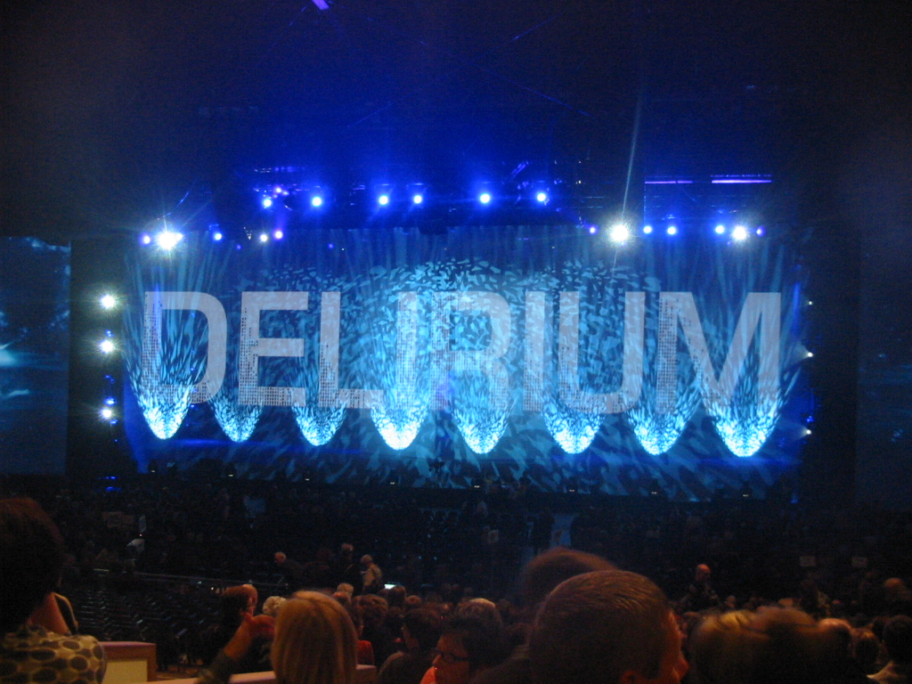 Cirque du Soleil's DELIRIUM stage before the show starts in Antwerpen (Belgium)